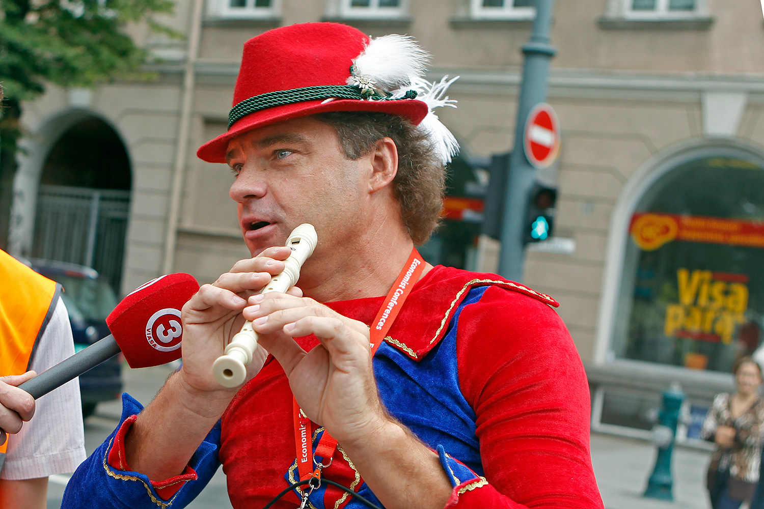 Politician Žilvinas Šilgalis